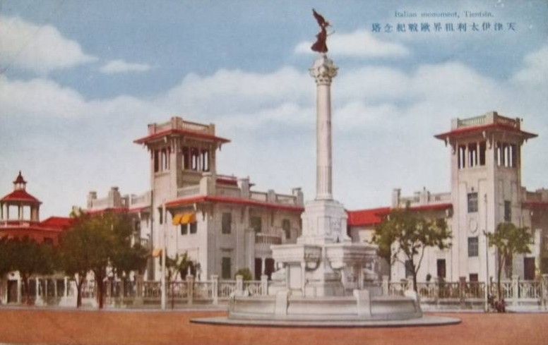 Italian Concession of Tientsin. Piazza Regina Elena and WWI monument. Anonymous postcard circa 1935.